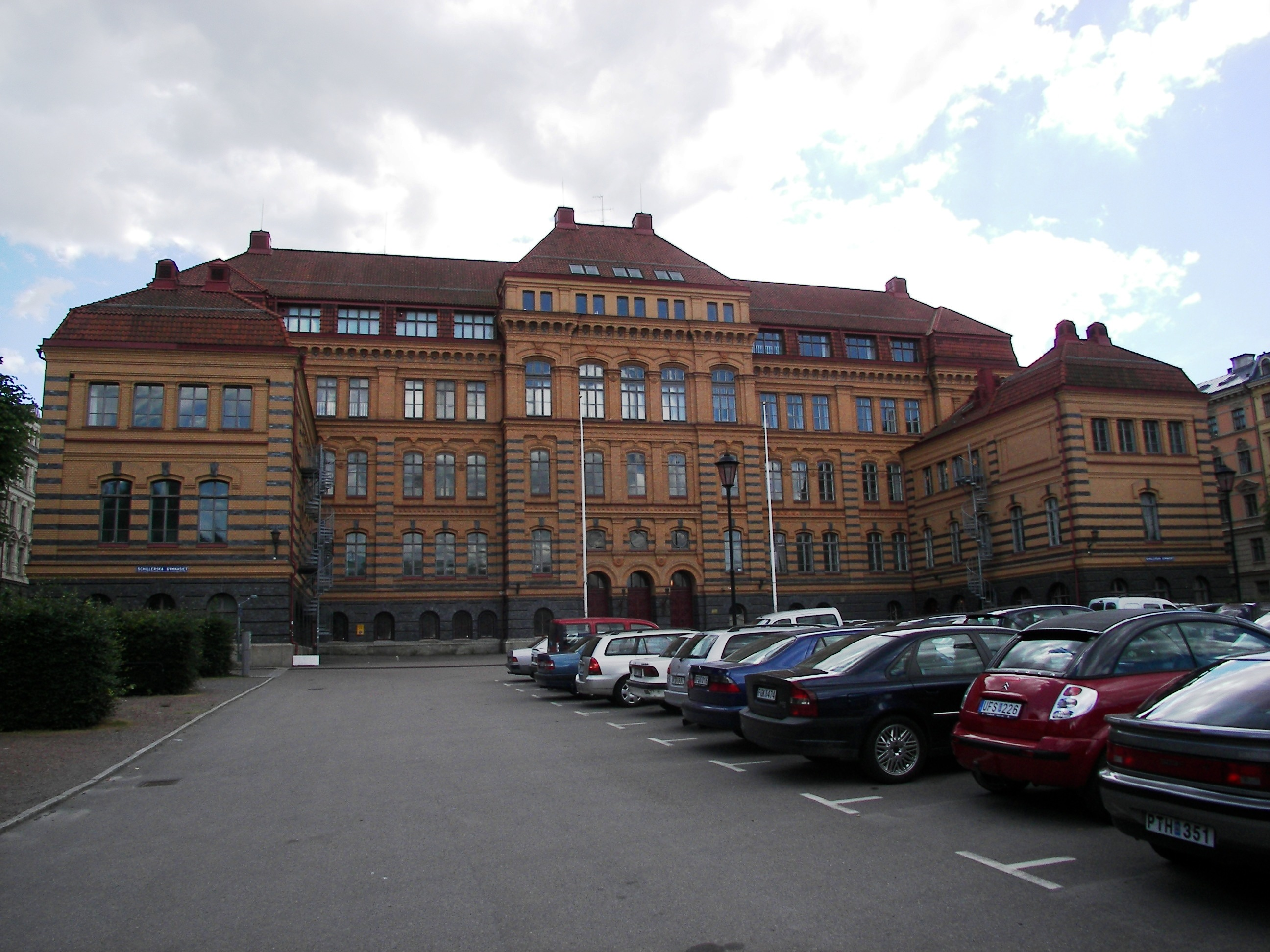 Secondary school Schillerska in Göteborg, Sweden.